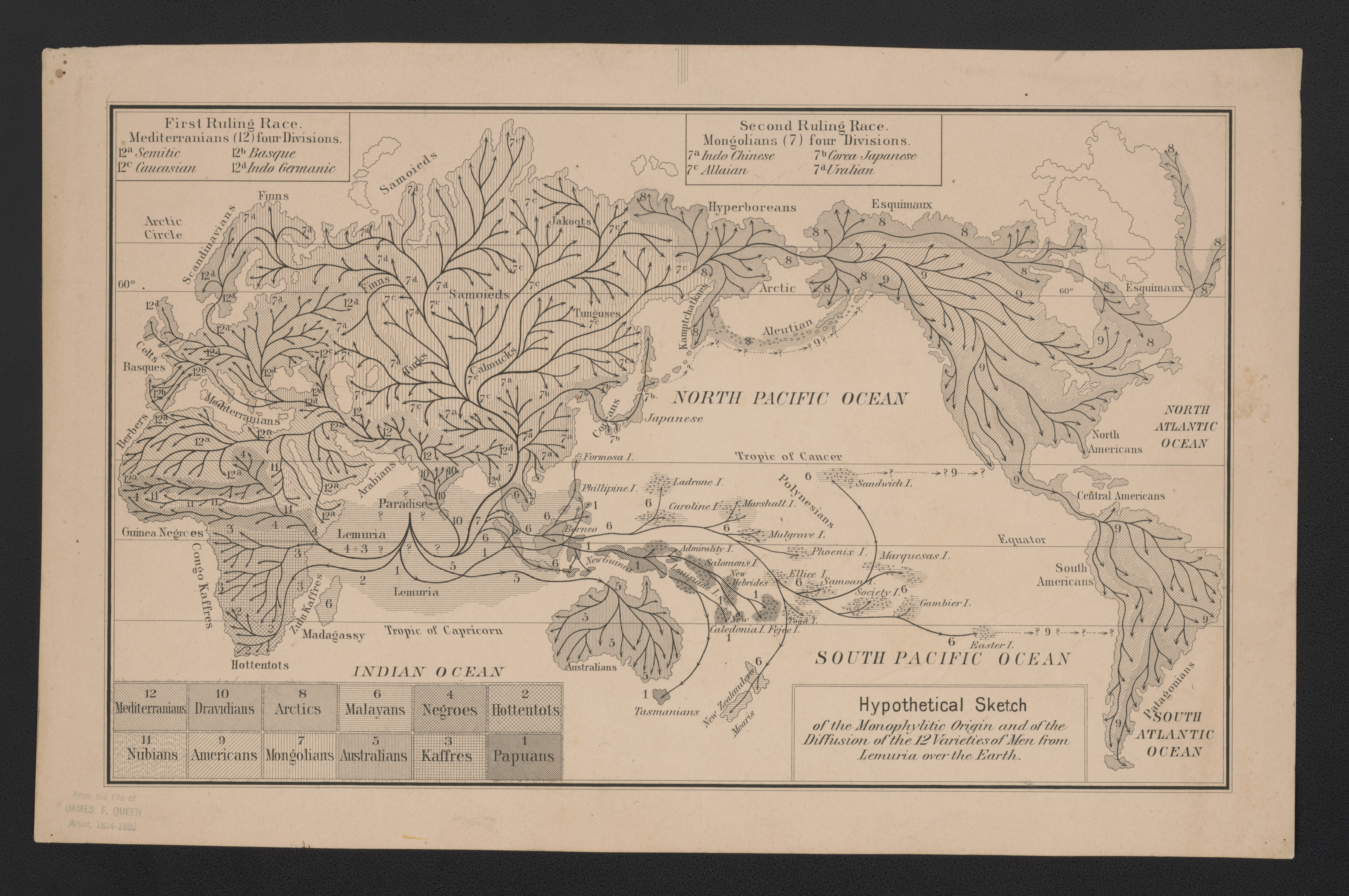 Title: Hypothetical sketch of the monophylitic origin and of the diffusion of the 12 varieties of men from Lemuria over the earth Abstract/medium: 1 print : lithograph ; sheet 21.6 x 33.6 cm.